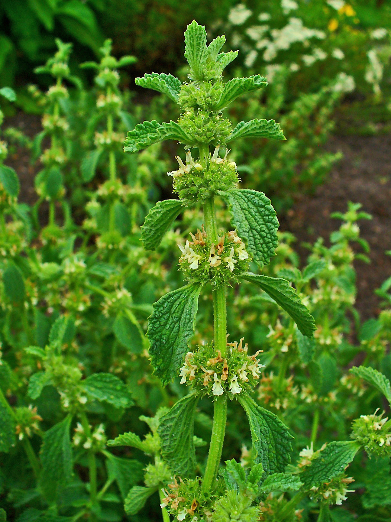 Marrubium vulgare, Lamiaceae, White Horehound, Common Horehound, inflorescences; Botanical Garden KIT, Karlsruhe, Germany.